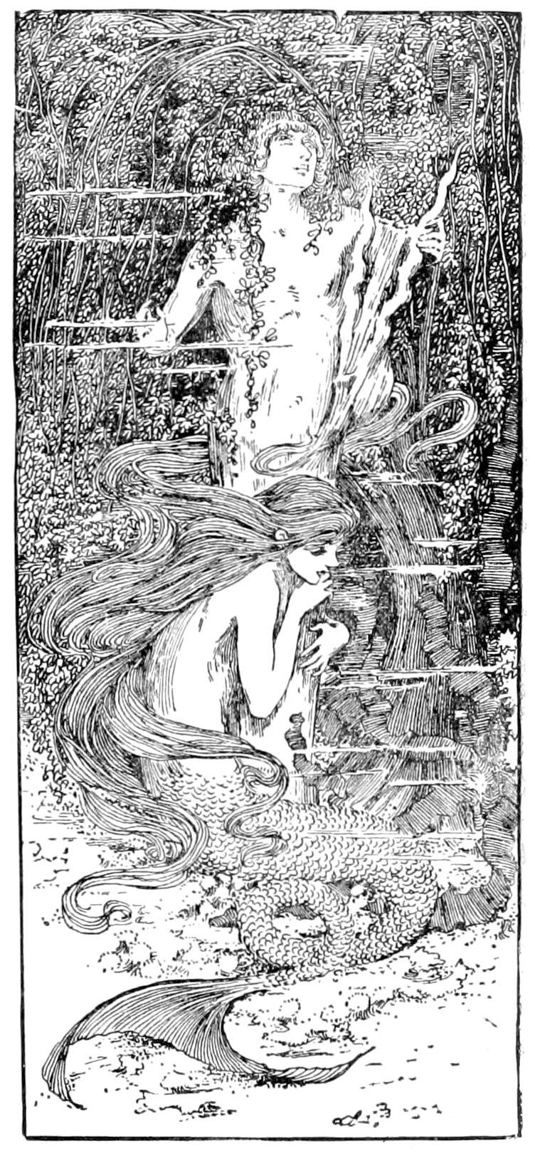 Illustration in a collection of Anderson's Fairy tales.